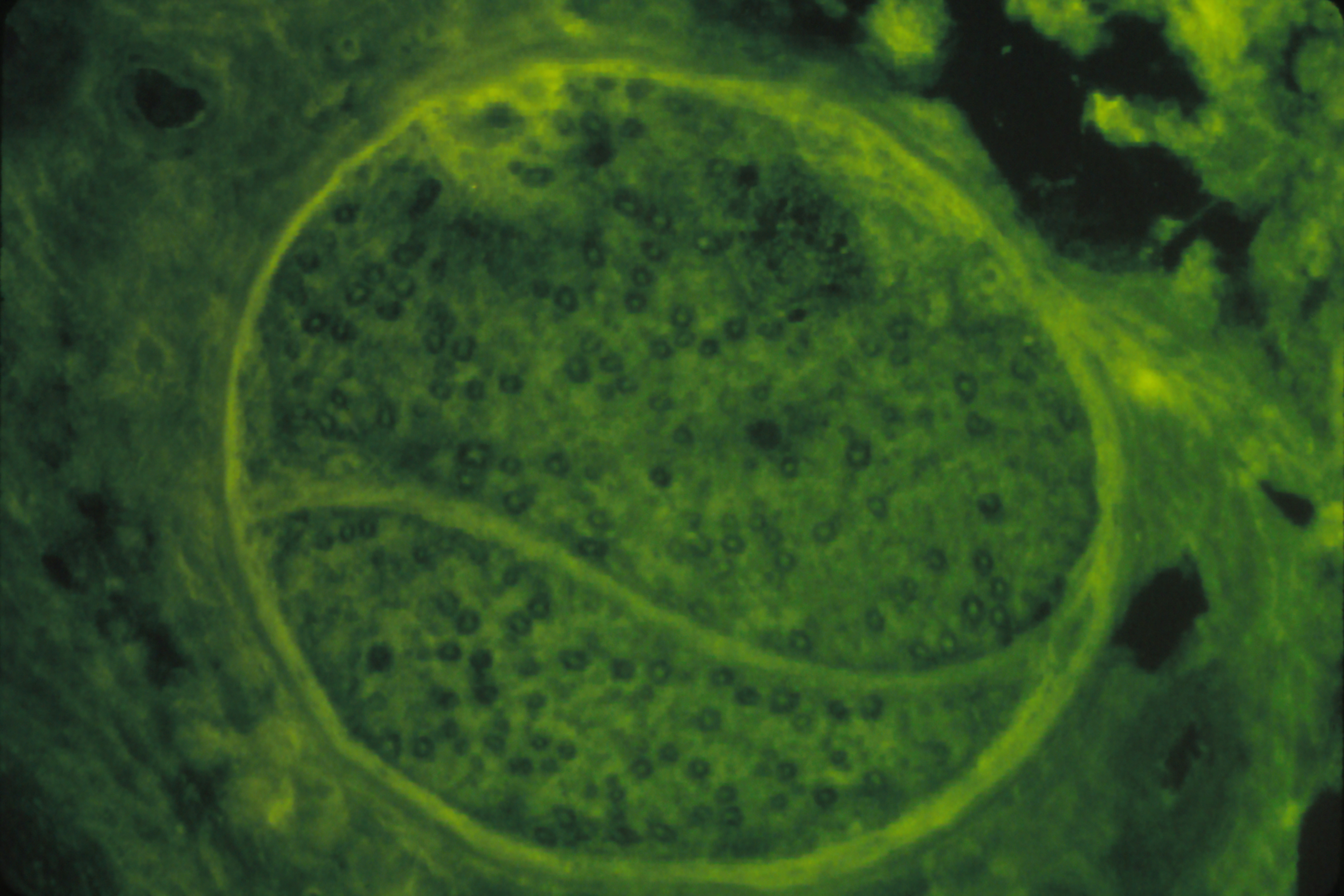 Section of normal human N.peroneus nerve tissue incubated with HIV-negativ human control serum